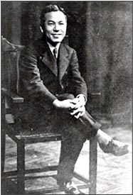 Kim Seong-su, a Korean Independent activists (1930. C.A)